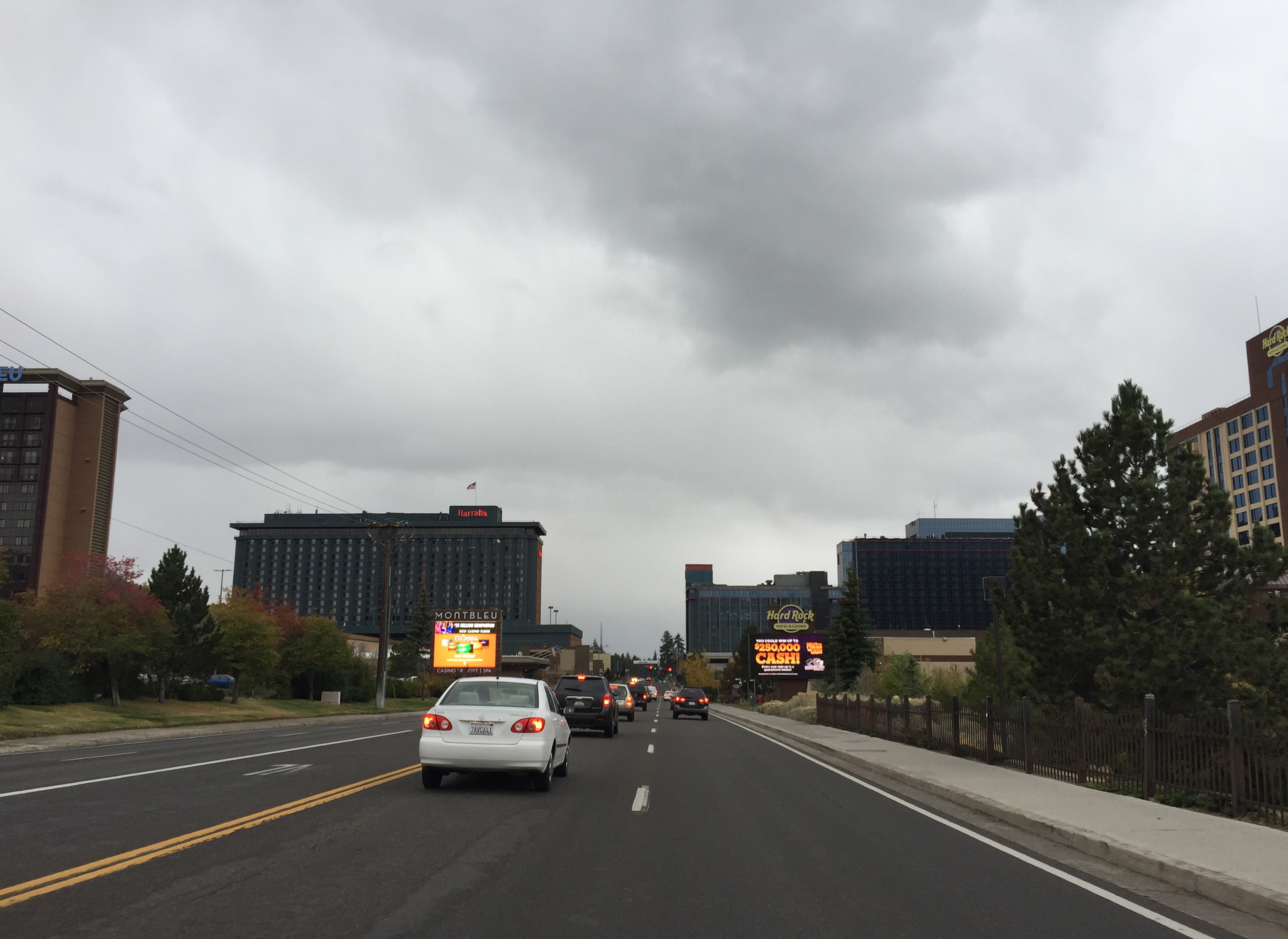 View west along U.S. Route 50 about a quarter mile east of the California state line in Stateline, Nevada